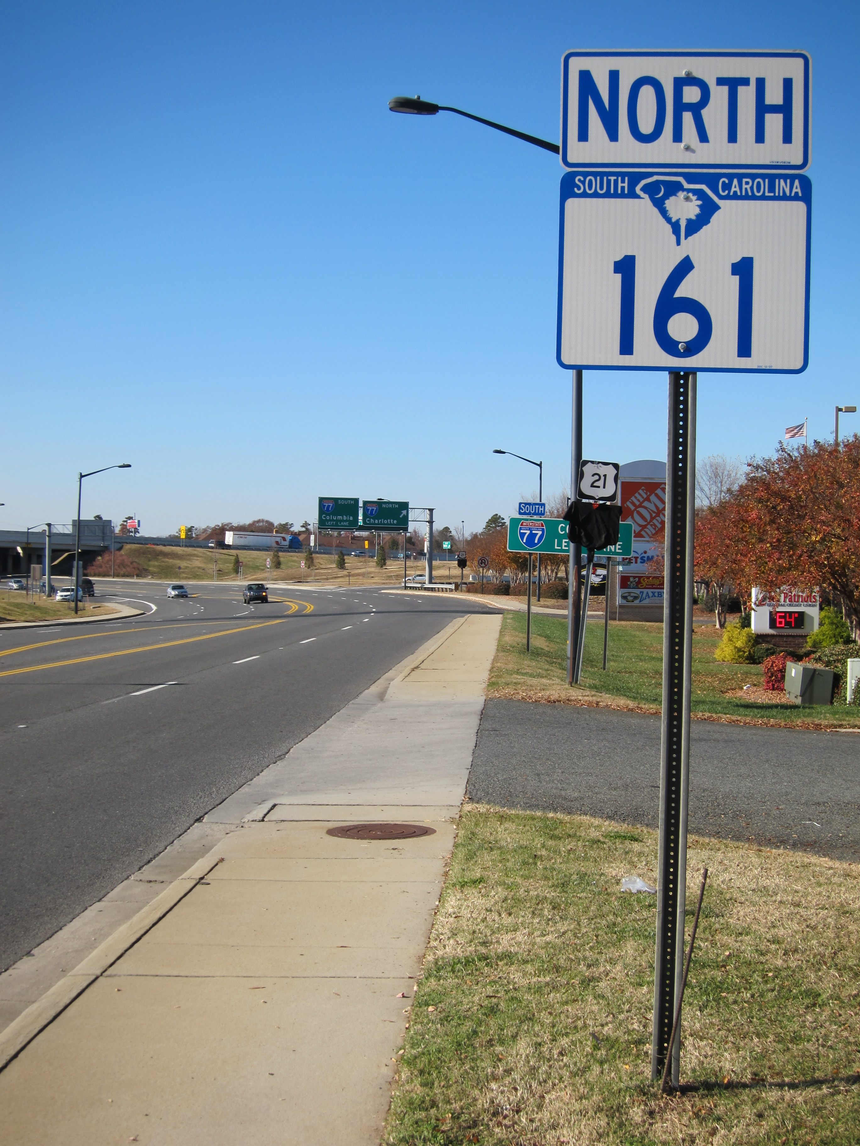 First sign of South Carolina Highway 161 North, in Rock Hill, South Carolina.